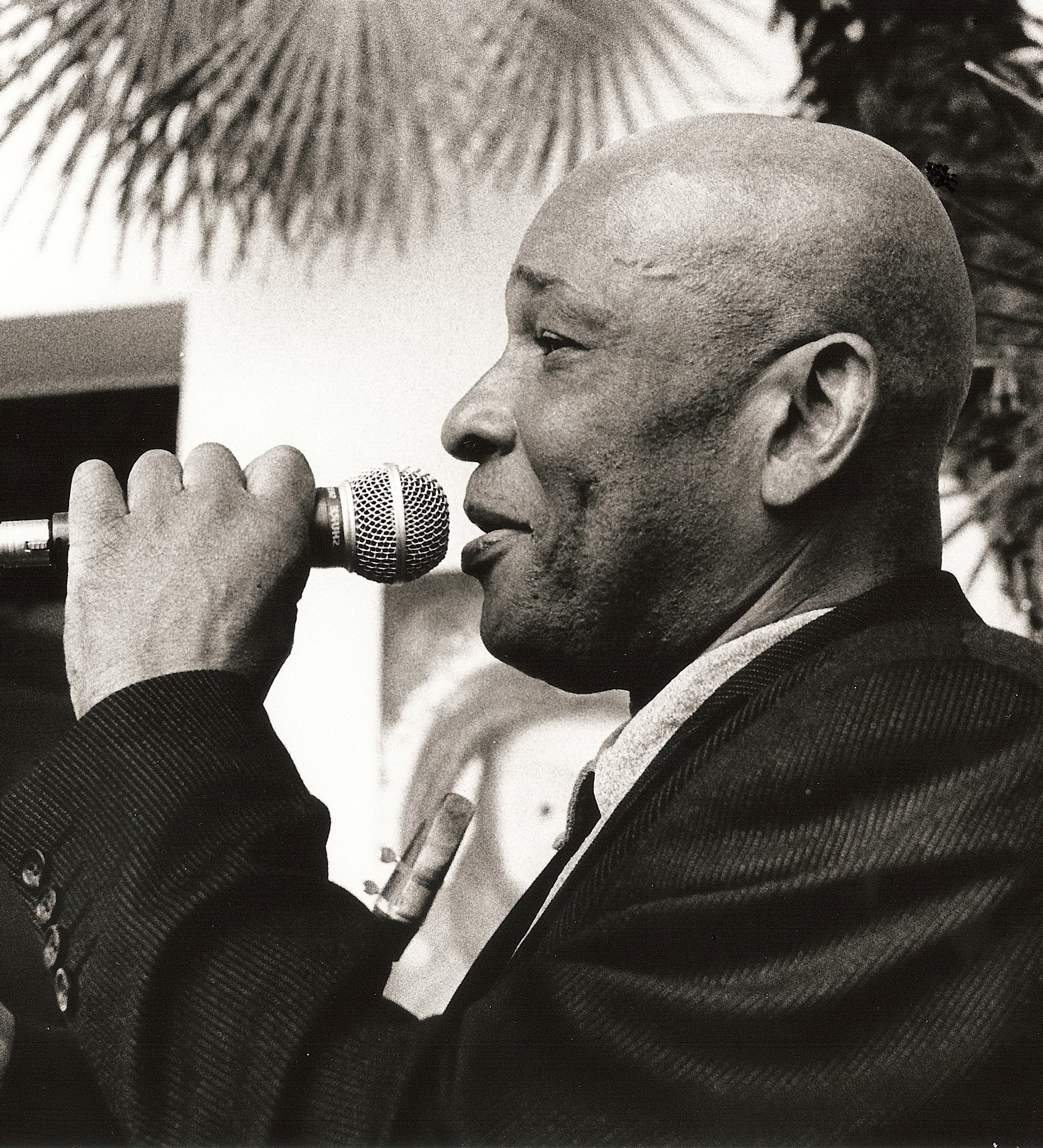 The saxophonist and vocalist Monty Waters in concert, Munich 1999